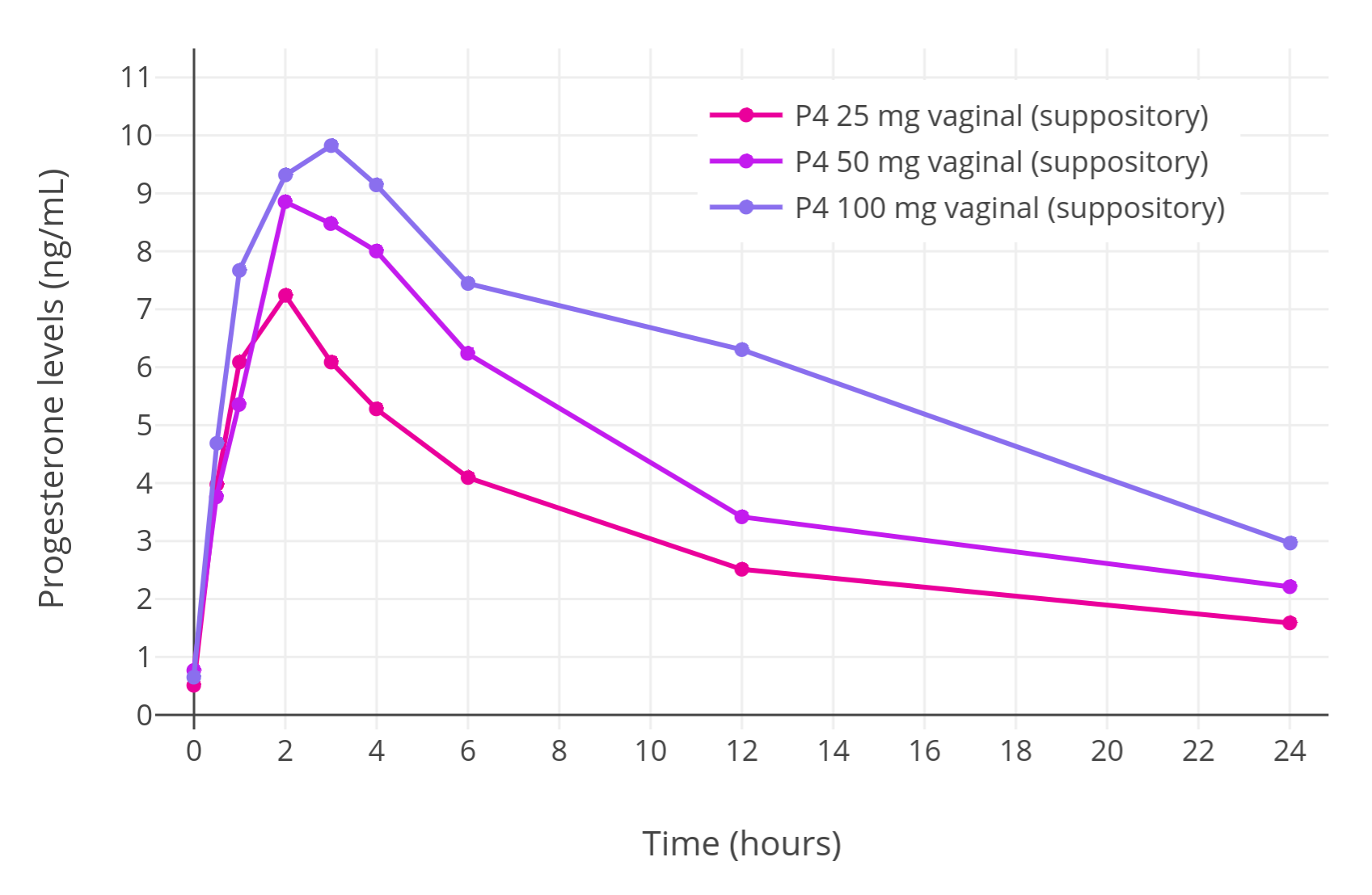 Levels of progesterone (ng/mL) following administration of a single 25, 50, or 100 mg vaginal progesterone suppository in 35 ovulating premenopausal women. The women were in the follicular phase of the menstrual cycle, between days 7 to 10. Maximal progesterone levels for the 25, 50, and 100 mg doses were 7.27 ± 2.8 ng/mL, 8.84 ± 3.14 ng/mL, and 9.82 ± 9.8 ng/mL, respectively. The assay method used for measuring progesterone levels was radioimmunoassay.